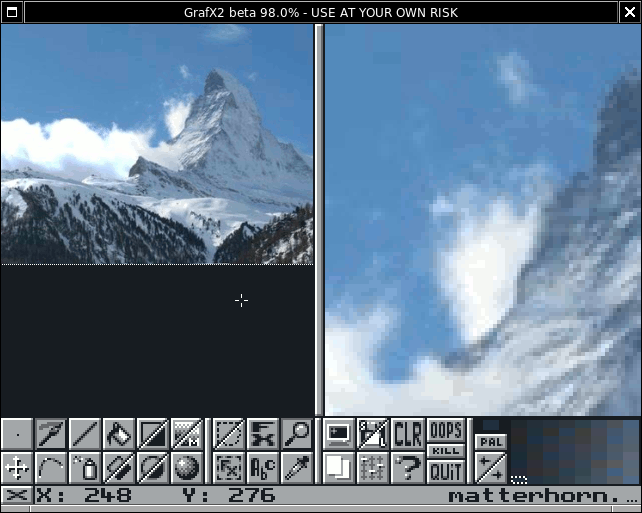 Screenshot of GrafX2